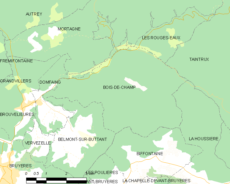 Map of French municipality Bois-de-Champ